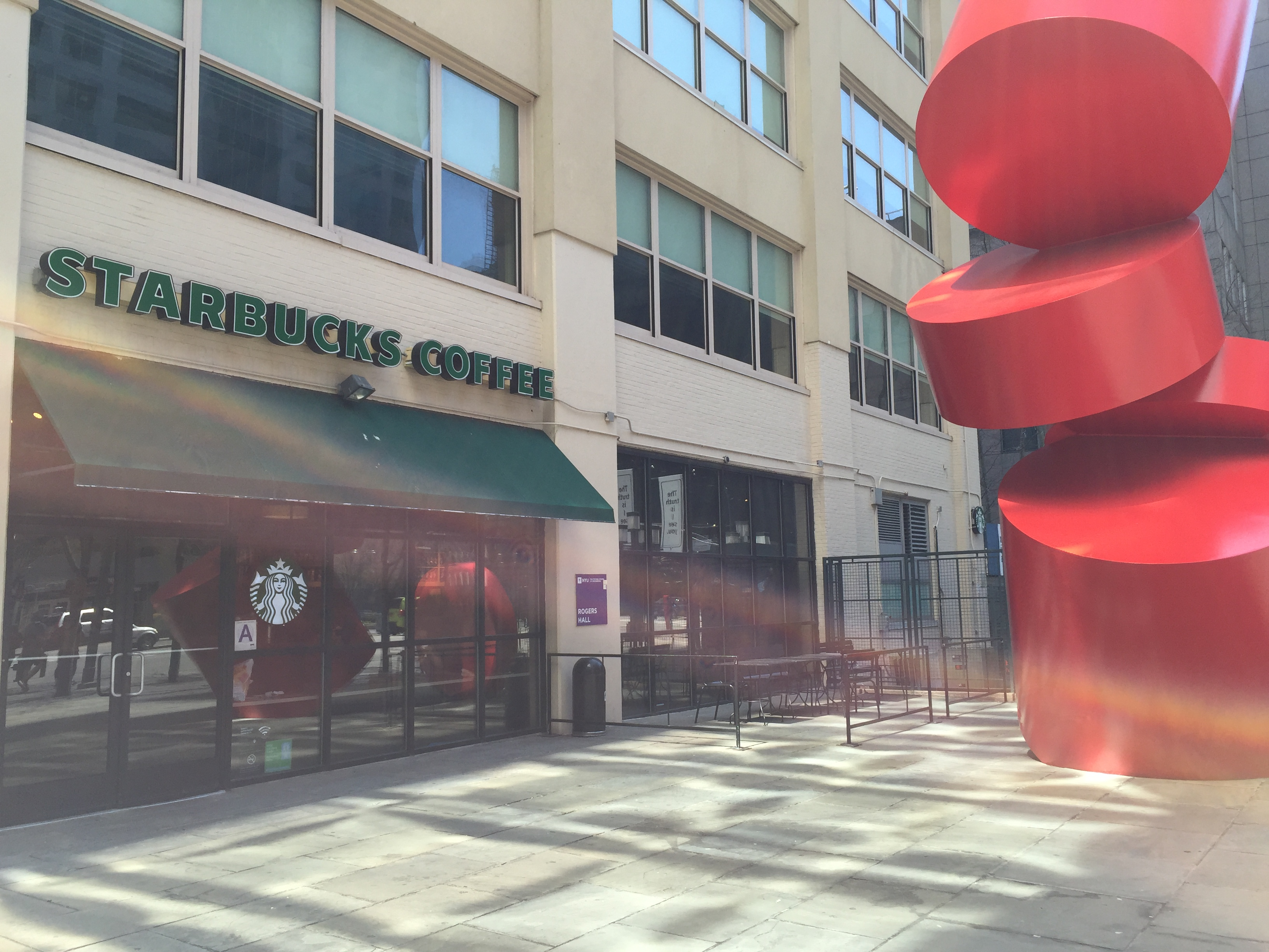 Starbucks at NYU Tandon